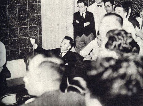 Former Prime Minister Fumnimaro Konoe (1889–1945) meets the press at Kazoku Kaikan (Peerage Club House) after having accepted his second imperial order to form a new government, 17 July 1940. Konoe was one of the most popular prime ministers among the press and the general public in the pre-war Japan.